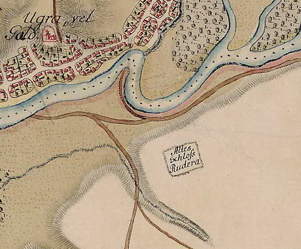 Castra of Hoghiz identified as Old castle "Rudera" ("rubbish") in Josephinian Land Survey.